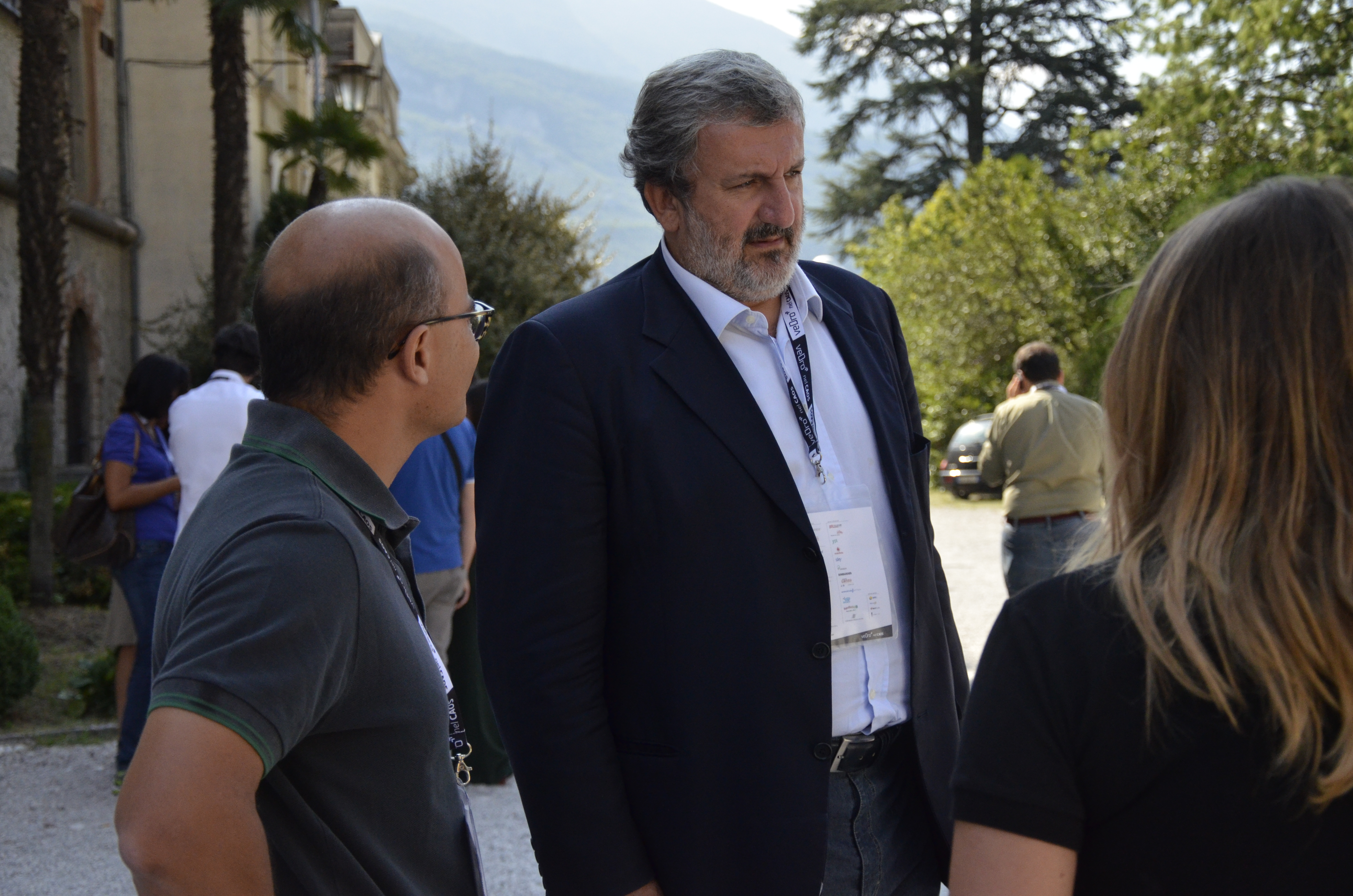 Michele Emiliano a veDrò.